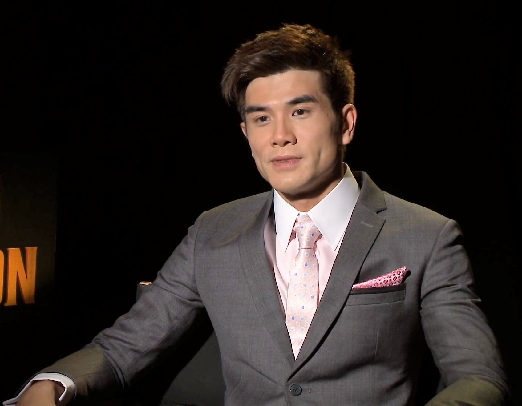 Philip NG plays Bruce Lee & reveals details of the legends controversial fight that changed history Birth Of The Dragon In Theaters August 25, 2017 Set against the backdrop of 1960s San Francisco, BIRTH OF THE DRAGON is a modern take on the classic movies that Bruce Lee was known for. It takes its inspiration from the epic and still controversial showdown between an up-and-coming Bruce Lee and kung fu master Wong Jack Man – a battle that gave birth to a legend. by Dulce Osuna